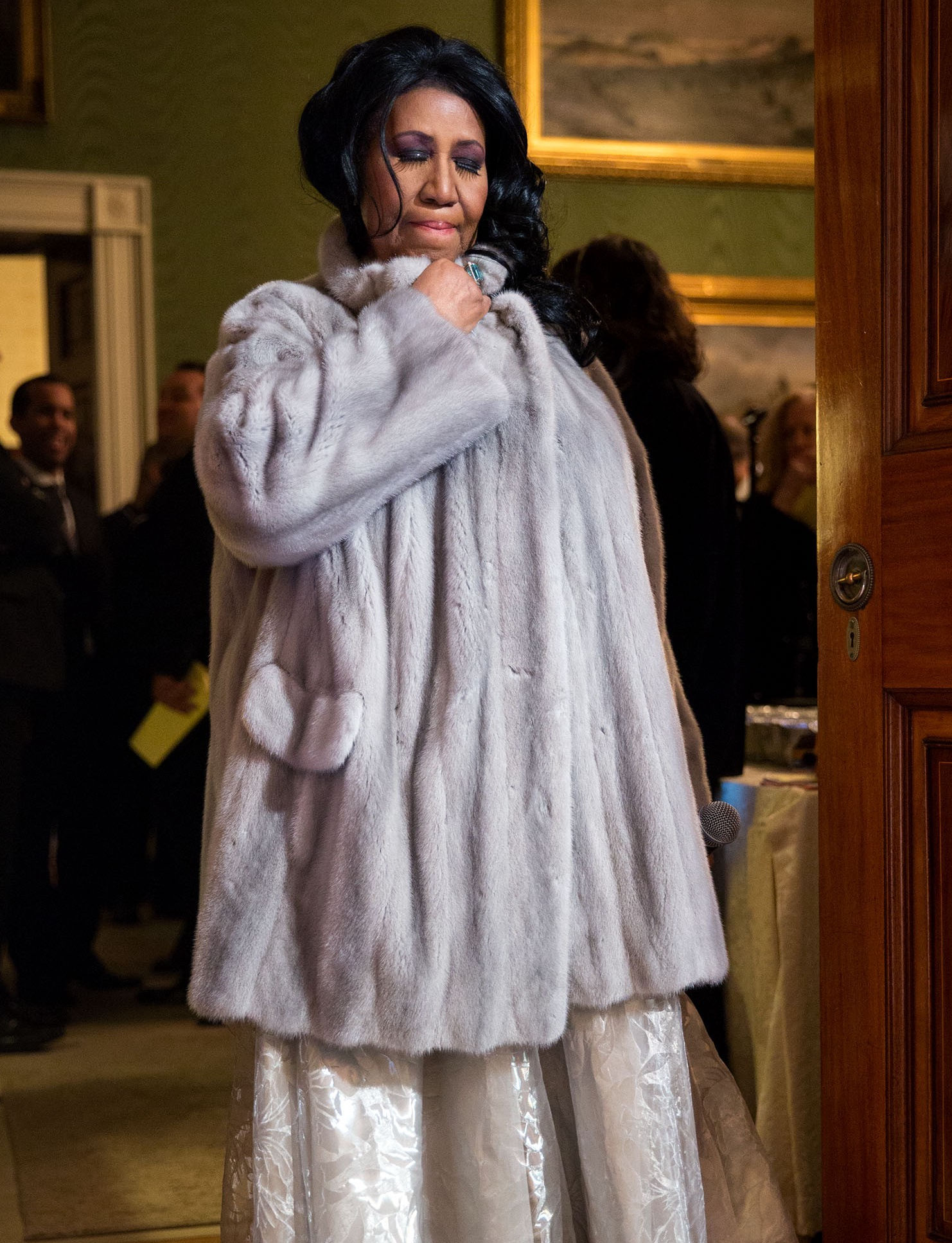 Verbatim from the source: “The Queen of Soul — Aretha Franklin — was waiting for her cue during ‘The Gospel Tradition: In Performance at the White House’ when I noticed her close her eyes in silence for a few seconds while standing in the doorway between the Green Room and East Room before she was ready to begin her performance.” (Official White House Photo by Pete Souza, cutted version)